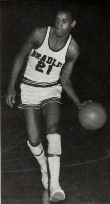 Bradley University basketball player Bobby Joe Mason from the 1958 “Anaga” yearbook